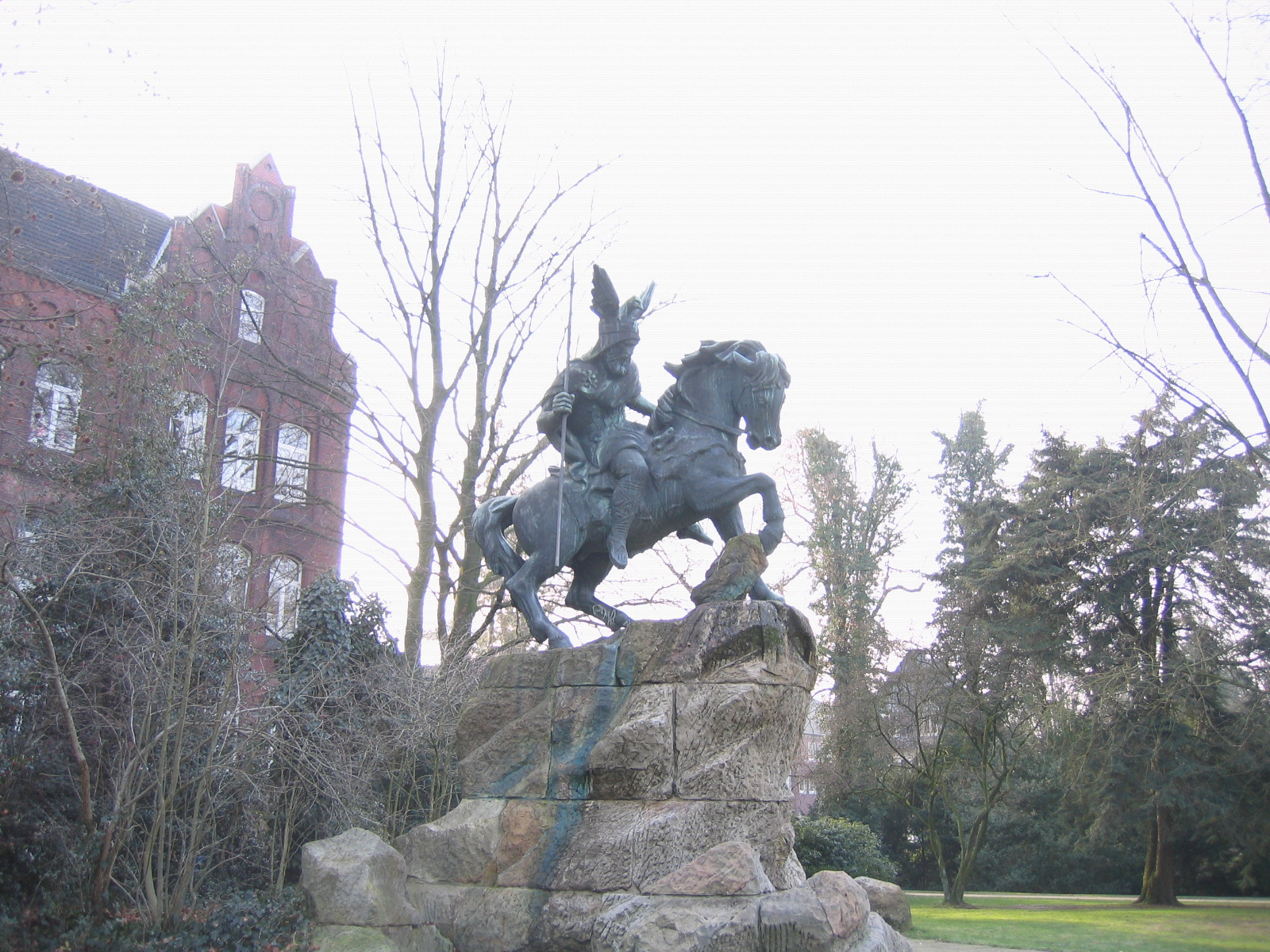 Widukind memorial in Herford, District of Herford, North Rhine-Westphalia, Germany.